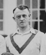 The Leicestershire County cricket team photographed on 30th April 1930. Alec Skelding